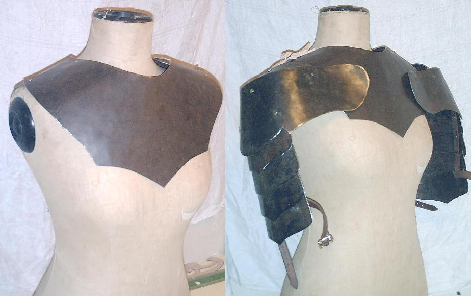 gorget